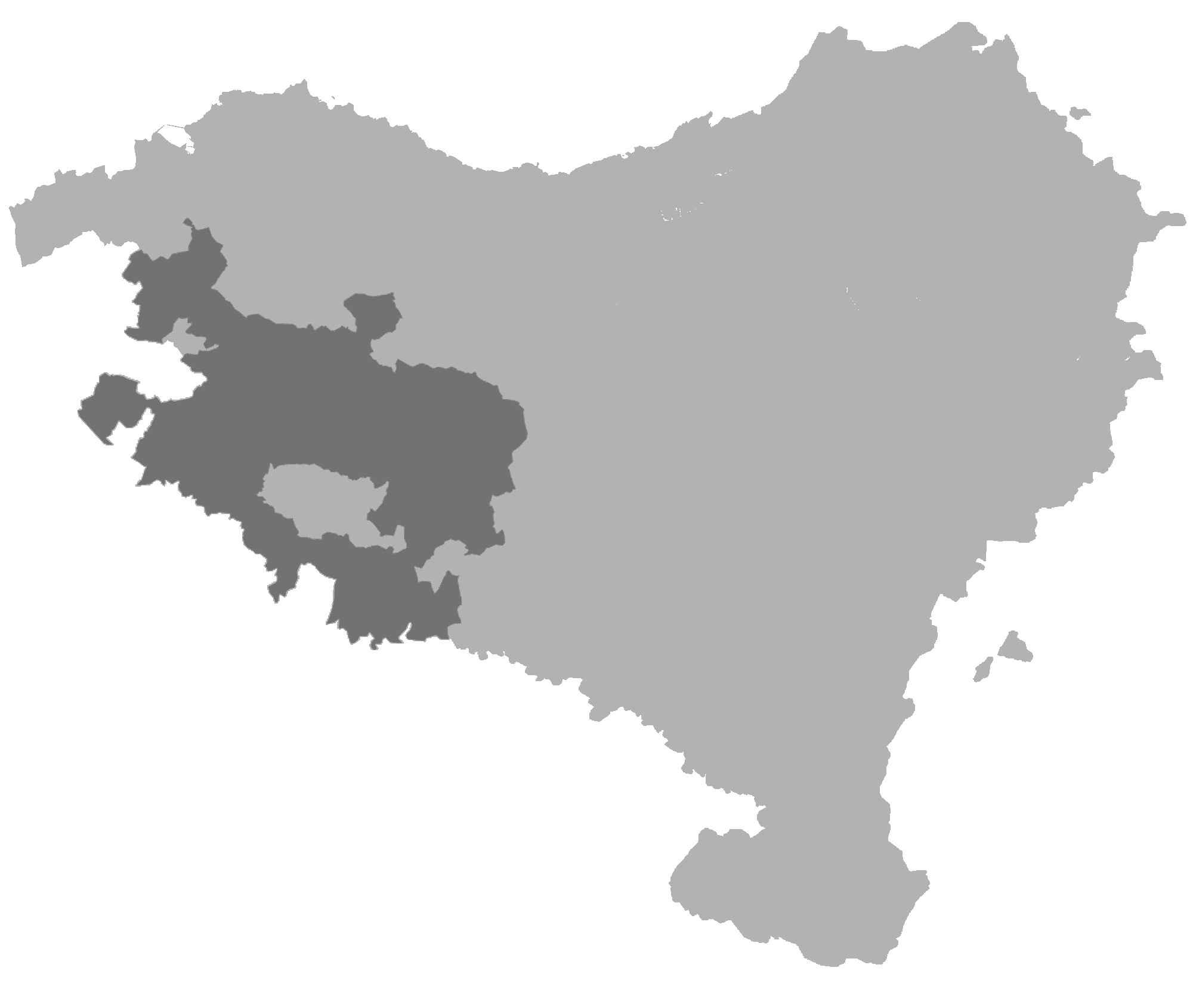 Map depicting situation of Araba in Euskal Herria.